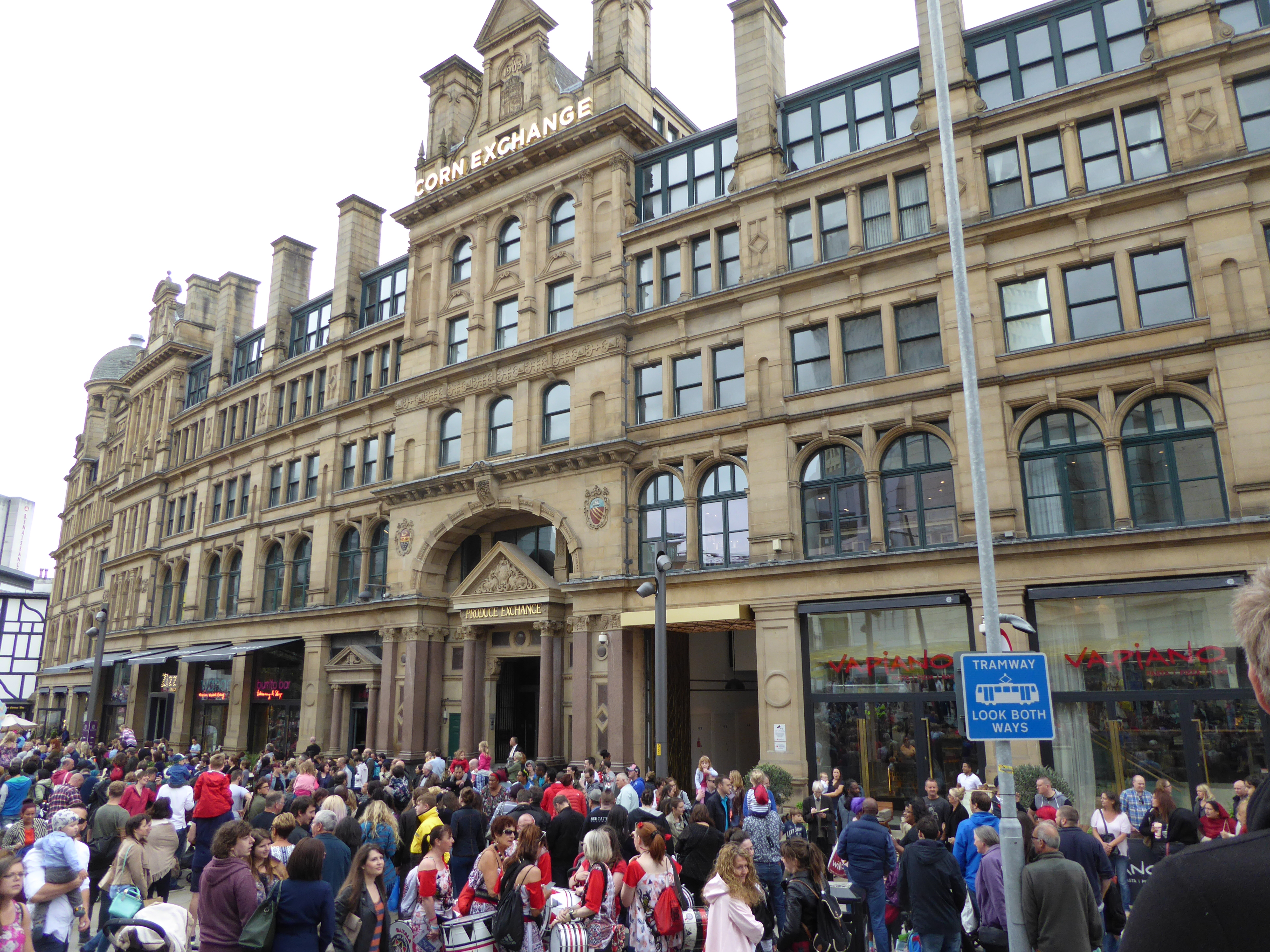 Manchester Day, Exchange Square, Manchester, England, June 2016